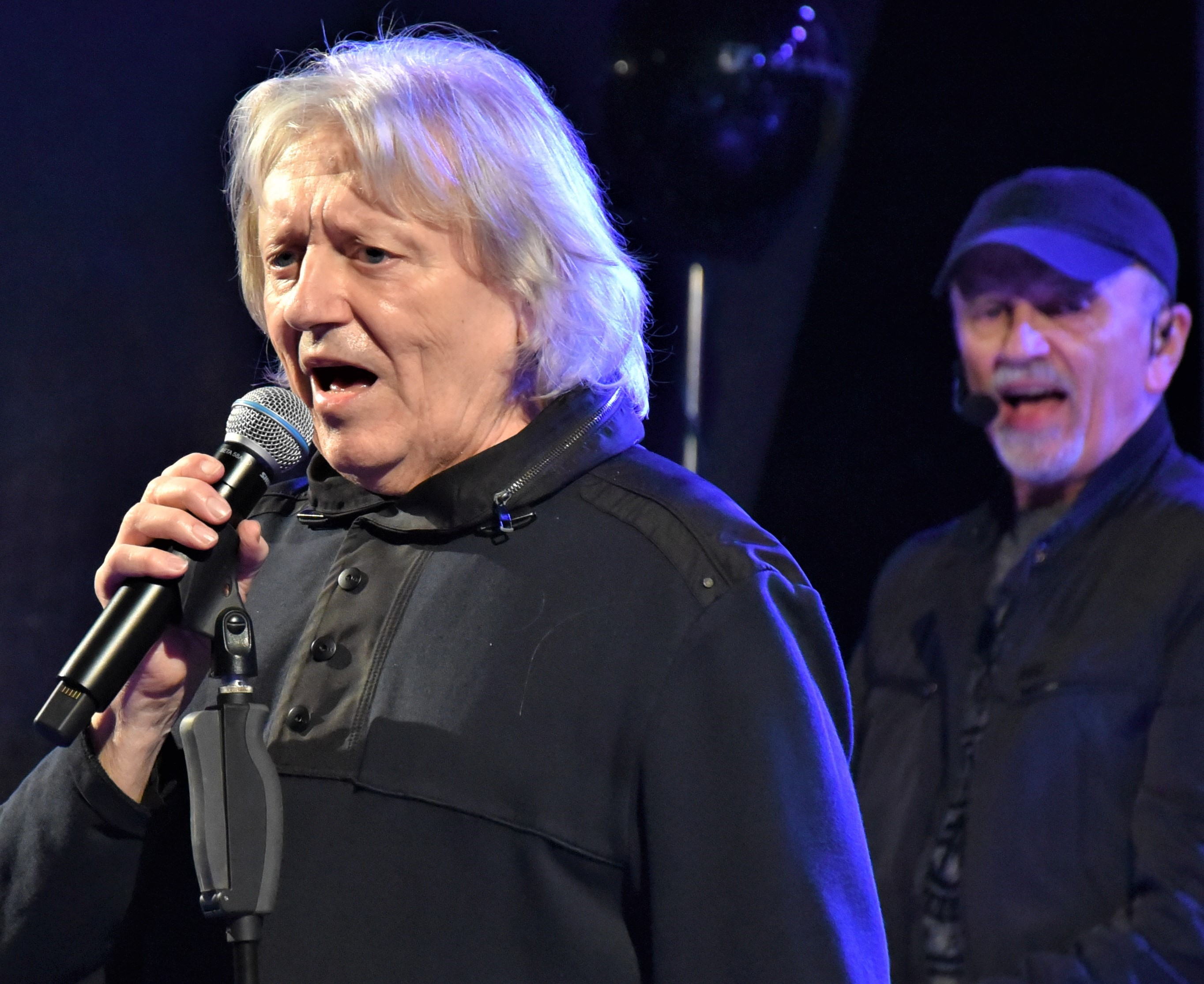 Václav Neckář, Czech vocalist and Jan Neckář, Czech musician